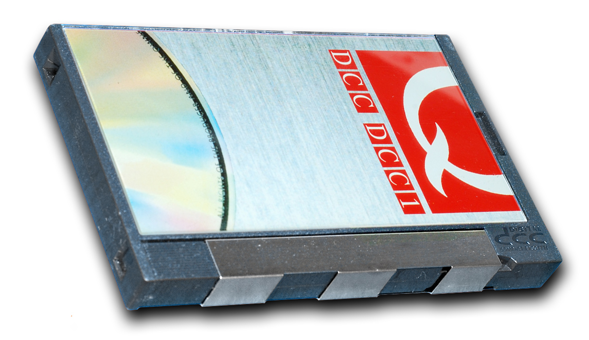 The front (picture-side) of a pre-recorded Digital Compact Cassette.